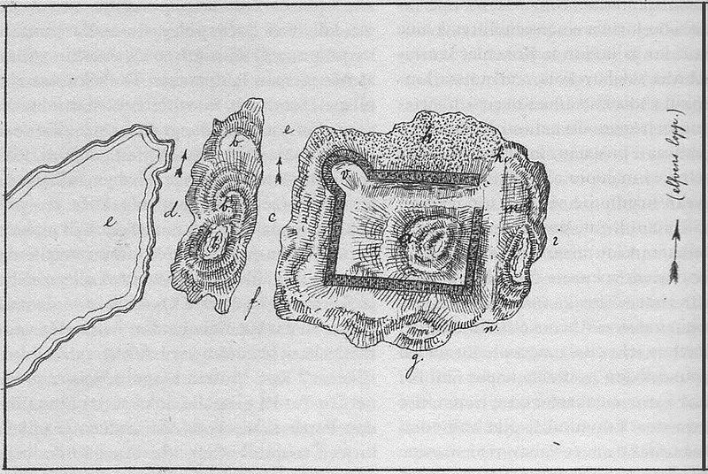 Simple floor plan drawing of Medieval Kokemäki Castle in Kokemäki, Finland. Drawn in 1868 by Henrik August Reinholm (1819-1883).